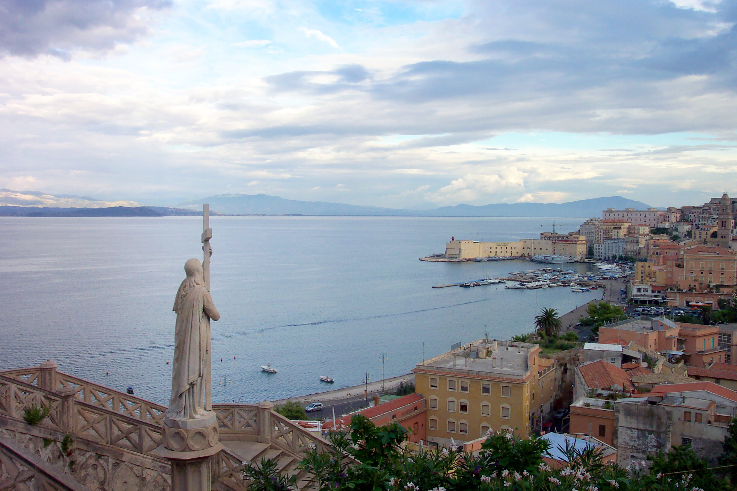 View from St. Francis church, Gaeta, Italy